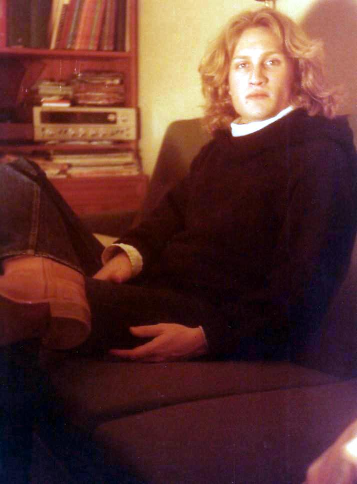 Swedish disc jockey Michael Hagström, as released by image creator Lars Jacob ProdPlace: Frejgatan 93, Stockholm, Sweden